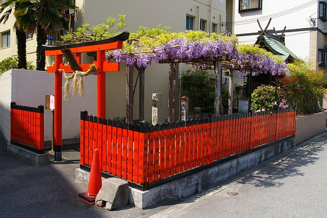 Kasuga Shrine, Fukushima-ku, Osaka City, Japan